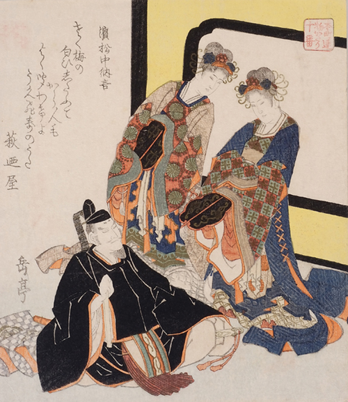 Woodblock print depicting a scene from Hamamatsu Chunagon Monogatari, aka. Mitsu no Hamamatsu.